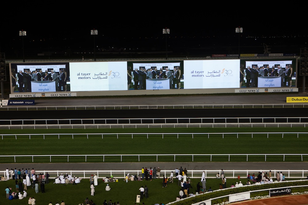 Al Tayer Motors is a regular sponsor of horseracing and also supports a domestic “Racing at Meydan” card in December as well as the 3200m stayers’ race, the Group 3 $1million Dubai Gold Cup on Dubai World Cup day, March 30 2013.